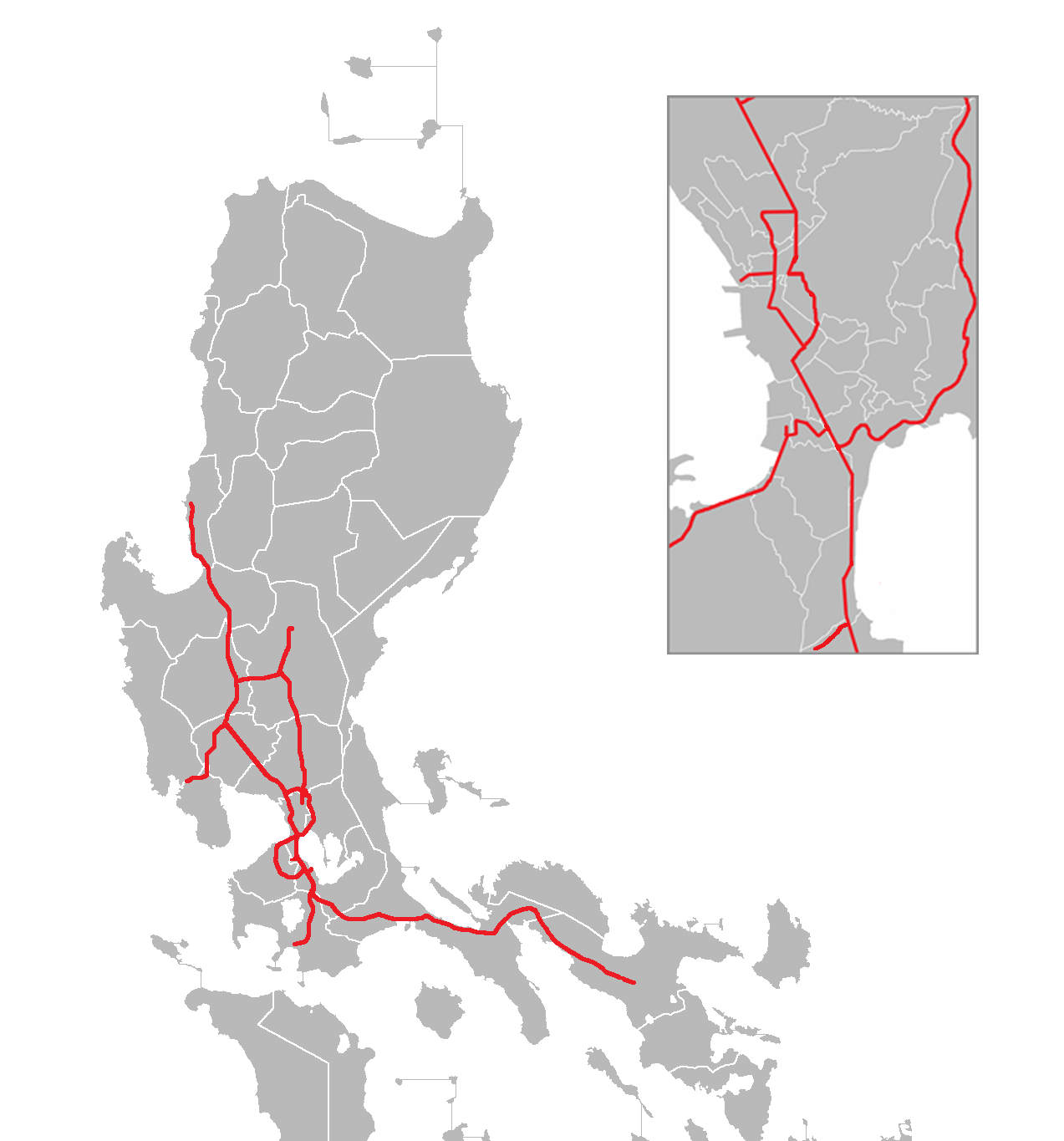 Includes all under construction and planned expressways